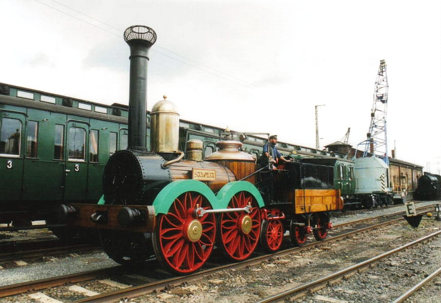 Replica of the Saxonia in 2003 on an exhibition in Dresden